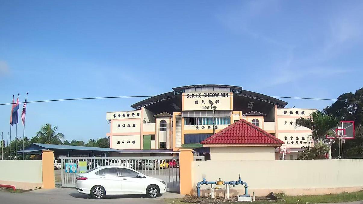 SJK (C) Cheow Min